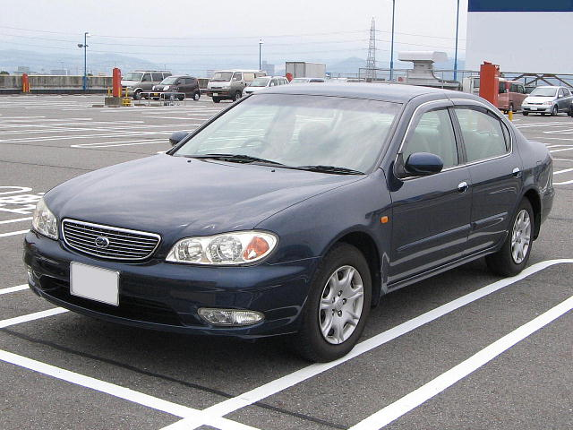 Nissan "Cefiro" (A33 / 3rd generation) 1998/12-2001/1